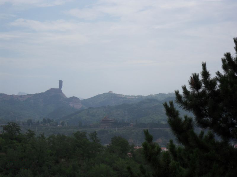 Qingchuifeng near Chengde source:owne.